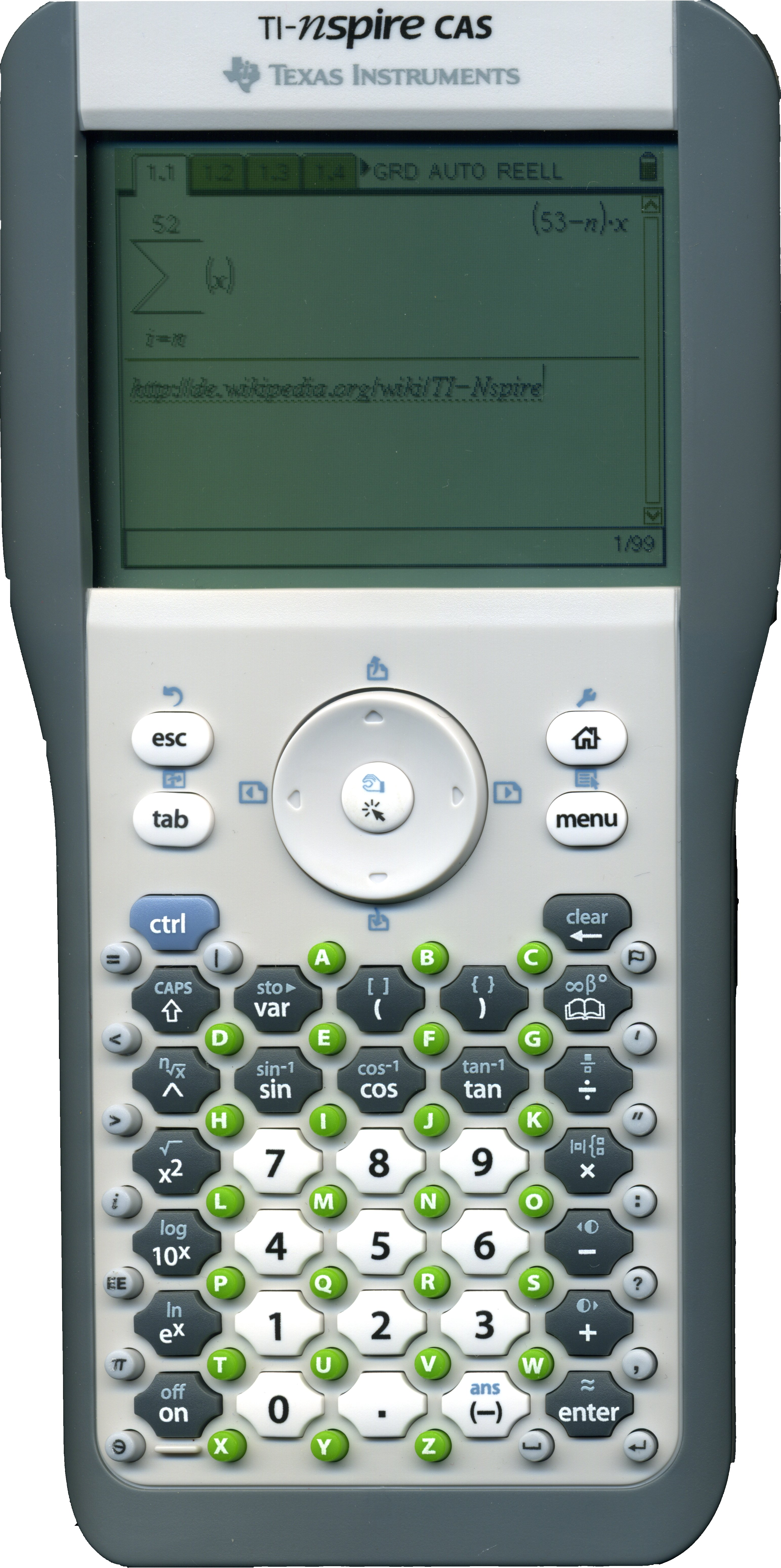 A photo of a TI-Nspire graphing calculator